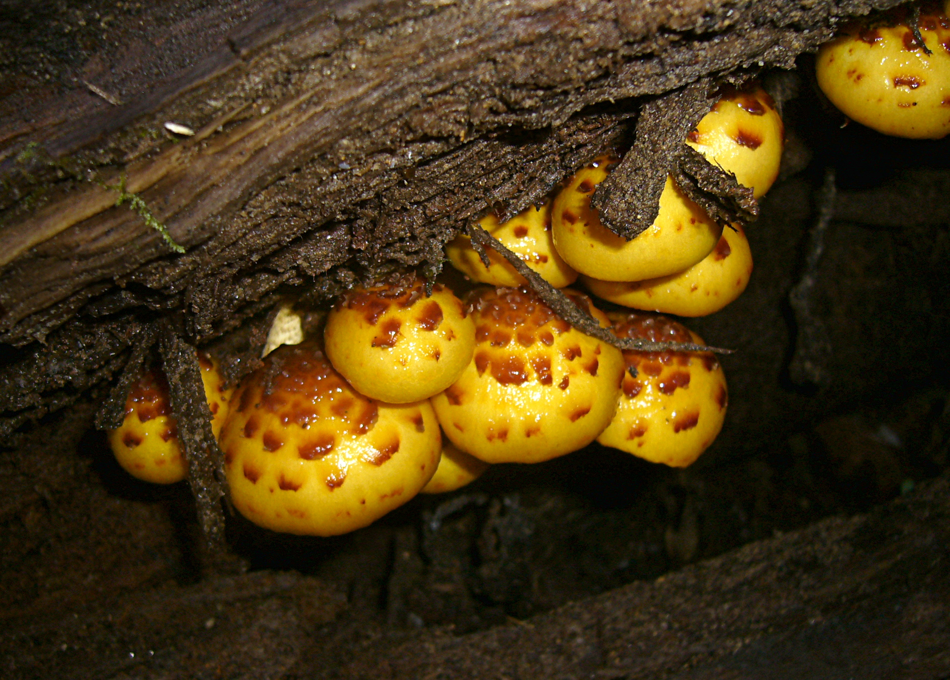 Pholiota jahnii Tjall. & Bas. Image location: Leura Forest, Leura, New South Wales, Australia Recognized by sight: on hardwood, same place as Morganella cf. purpurascens. Used references For more information about this, see the observation page at Mushroom Observer.